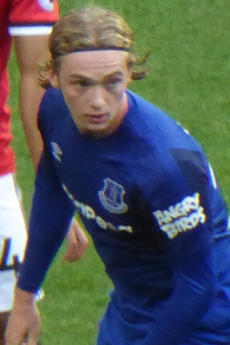 Manchester United v Everton (4-0), Premier League, Old Trafford, Manchester, Greater Manchester, England, 17 September 2017